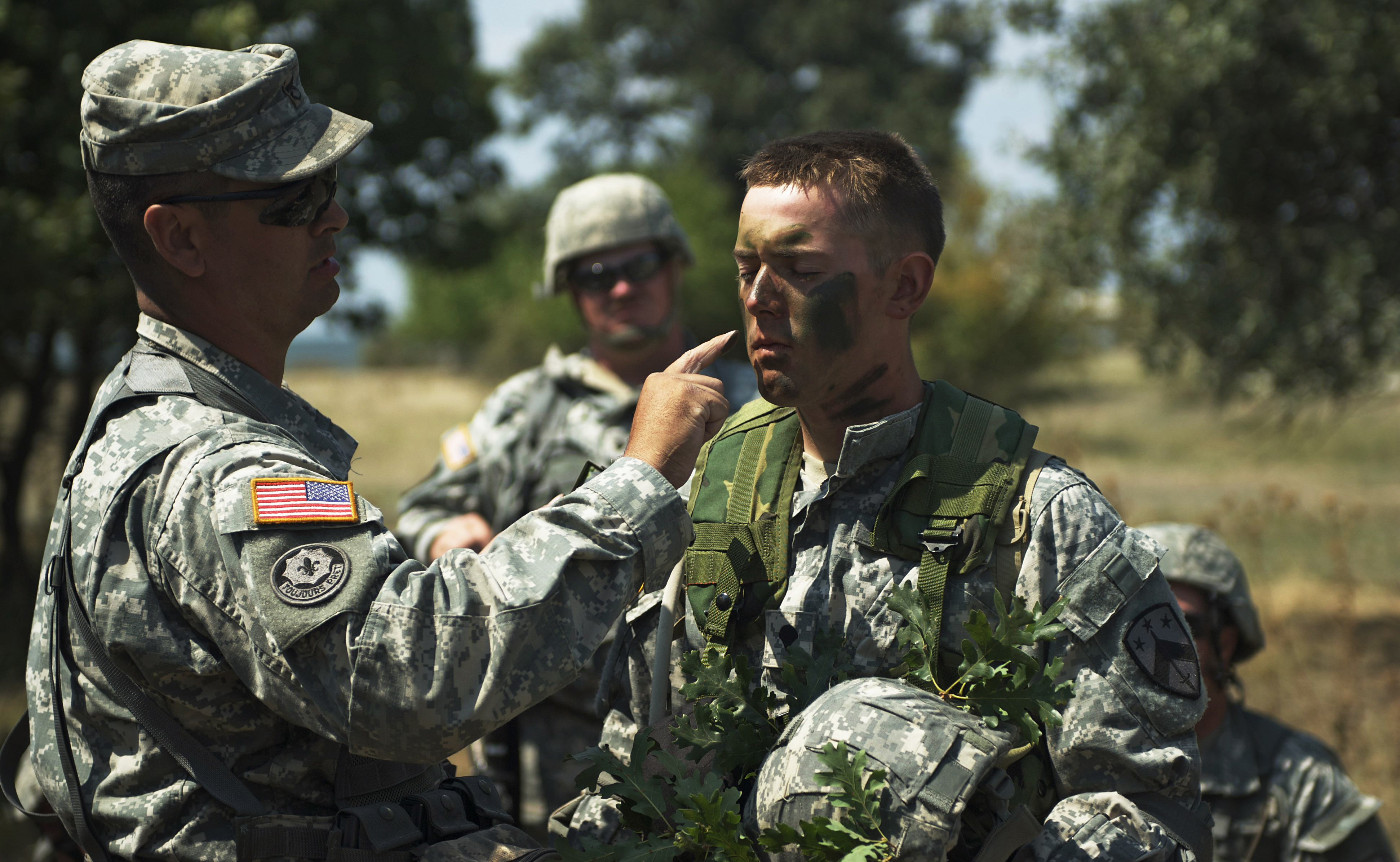 Soldiers of the Tennessee Army National Guard demonstrate how to properly apply camouflage concealment to the face at Babadag Training Area in eastern Romania, Aug. 15. Romanian Land Forces and Tennessee Army National Guard service members practiced painting their foreheads, cheekbones, nose, ears and chins with a dark color and painting low, shadowy areas with a light color during a field training exercise. See more at